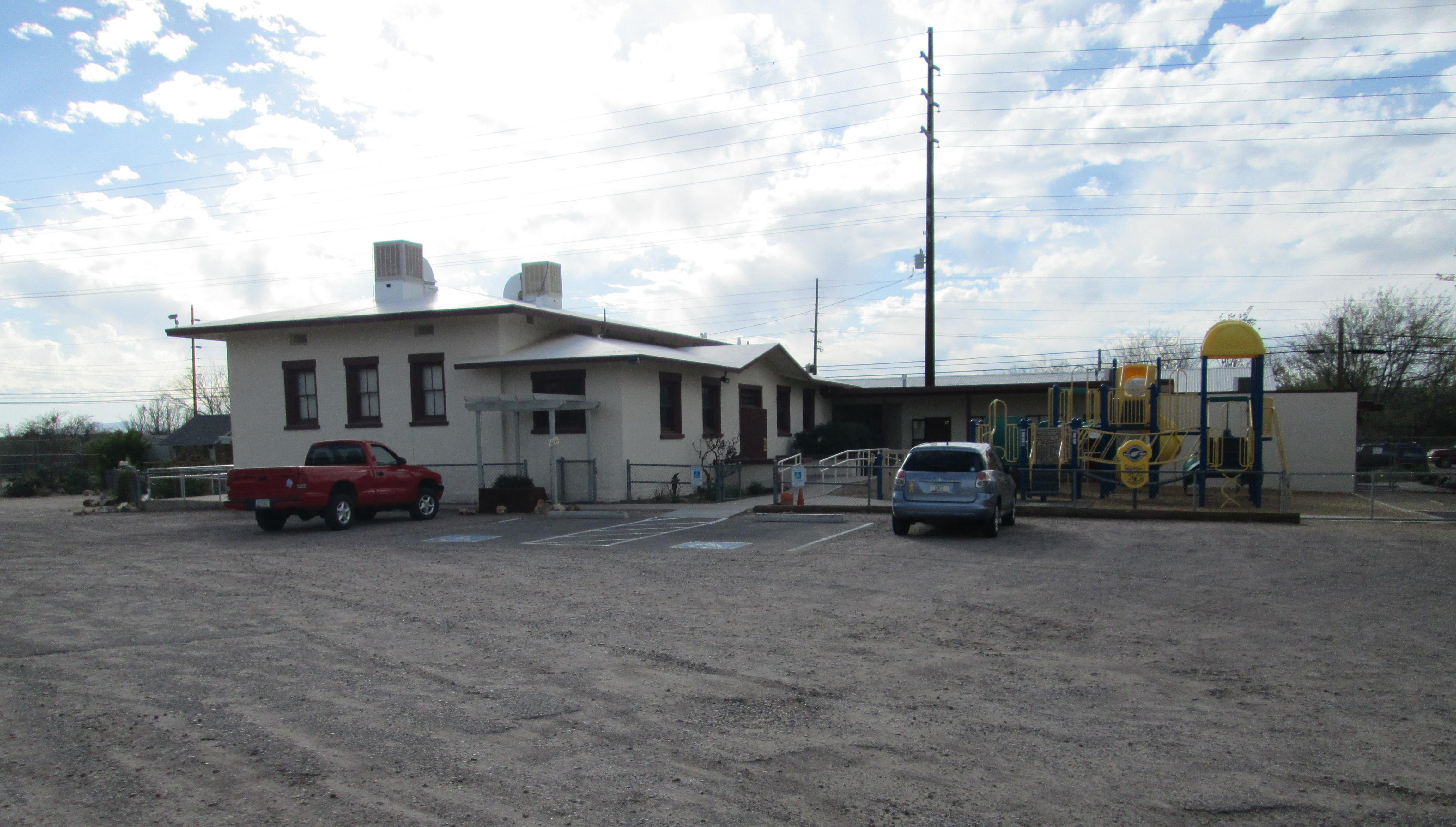 The Continental Community Center in Continental, Arizona. The building was originally the town school, and was built in 1918.